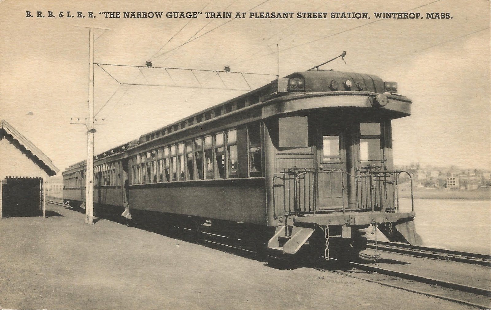 Postcard of a Boston, Revere Beach & Lynn Railroad train at Pleasant Street station after electrification